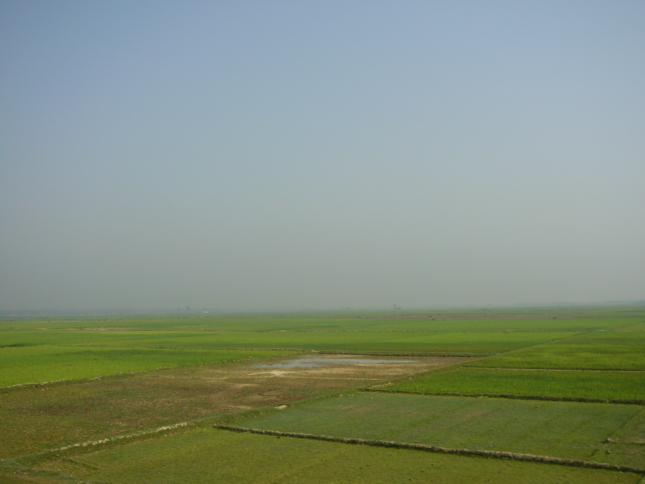 Author: Shahnoor Habib Munmun